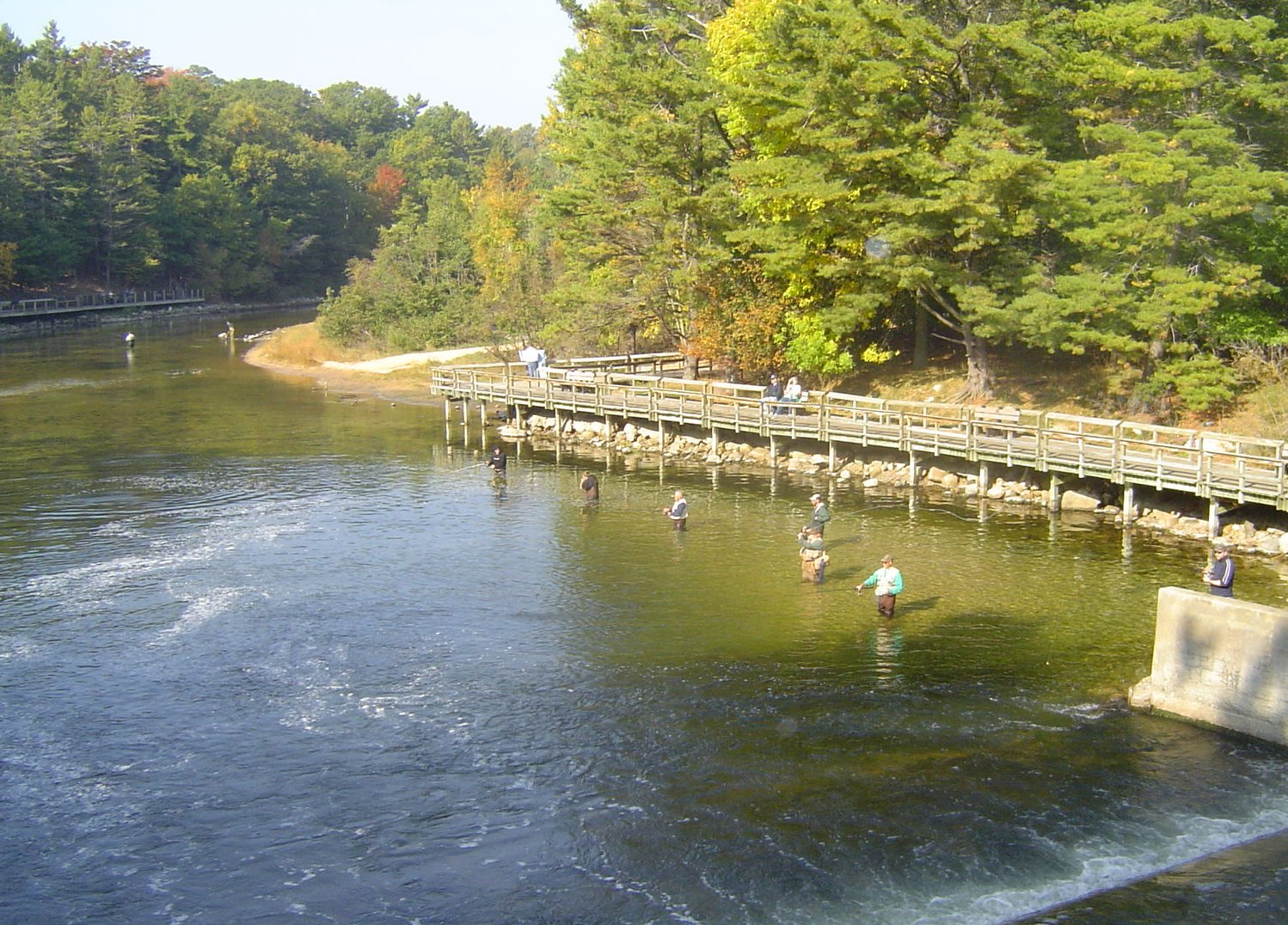 took picture myself 2005